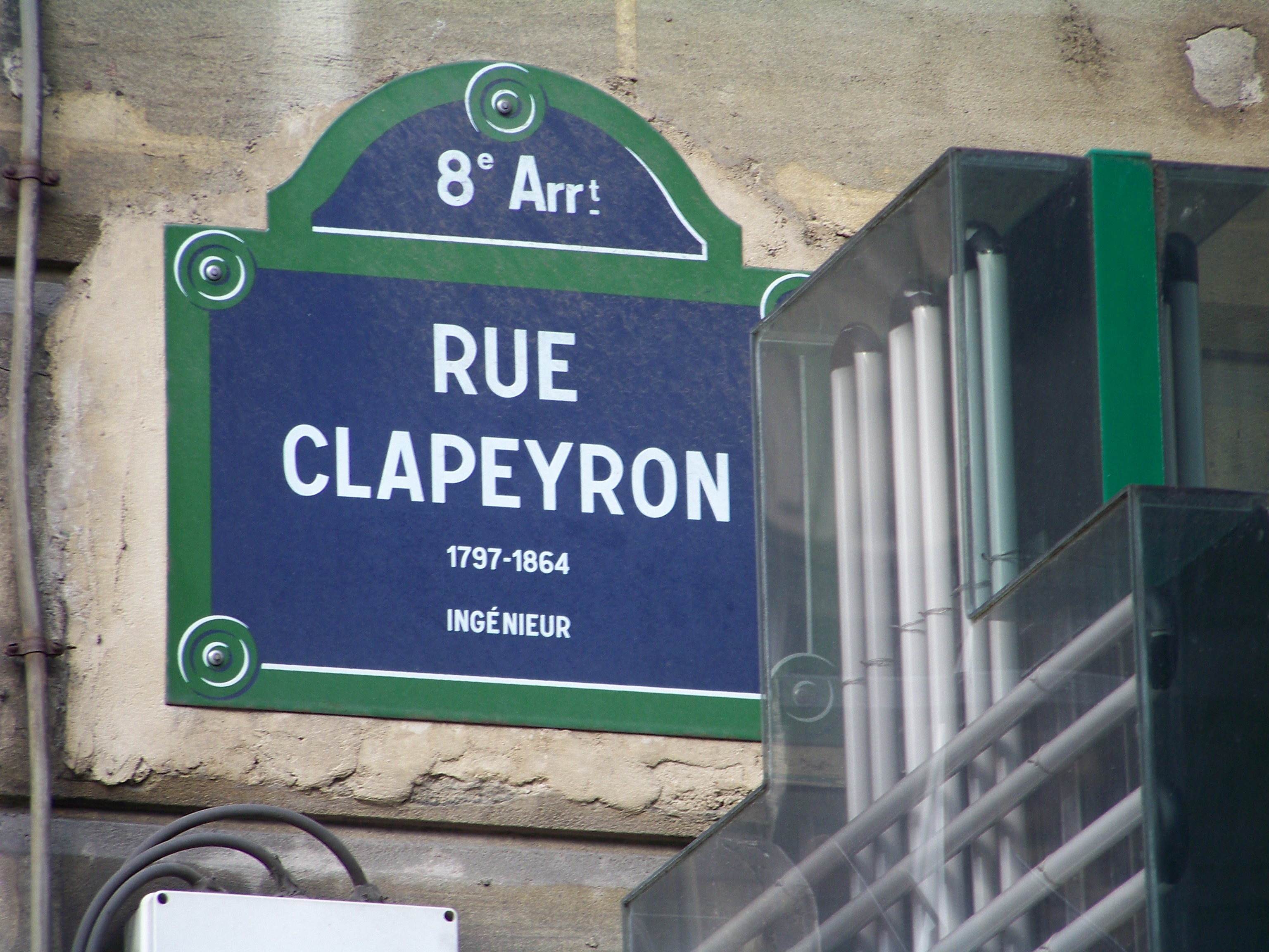 A street sign in Paris, France.